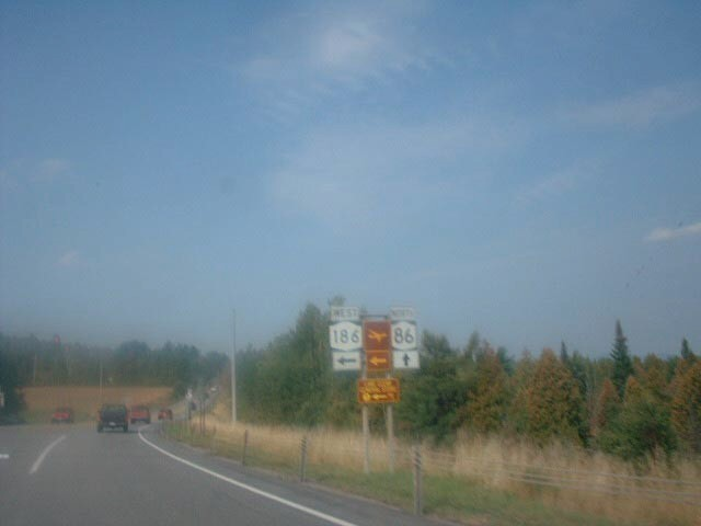 Northbound on New York State Route 86 at the eastern terminus of New York State Route 186.